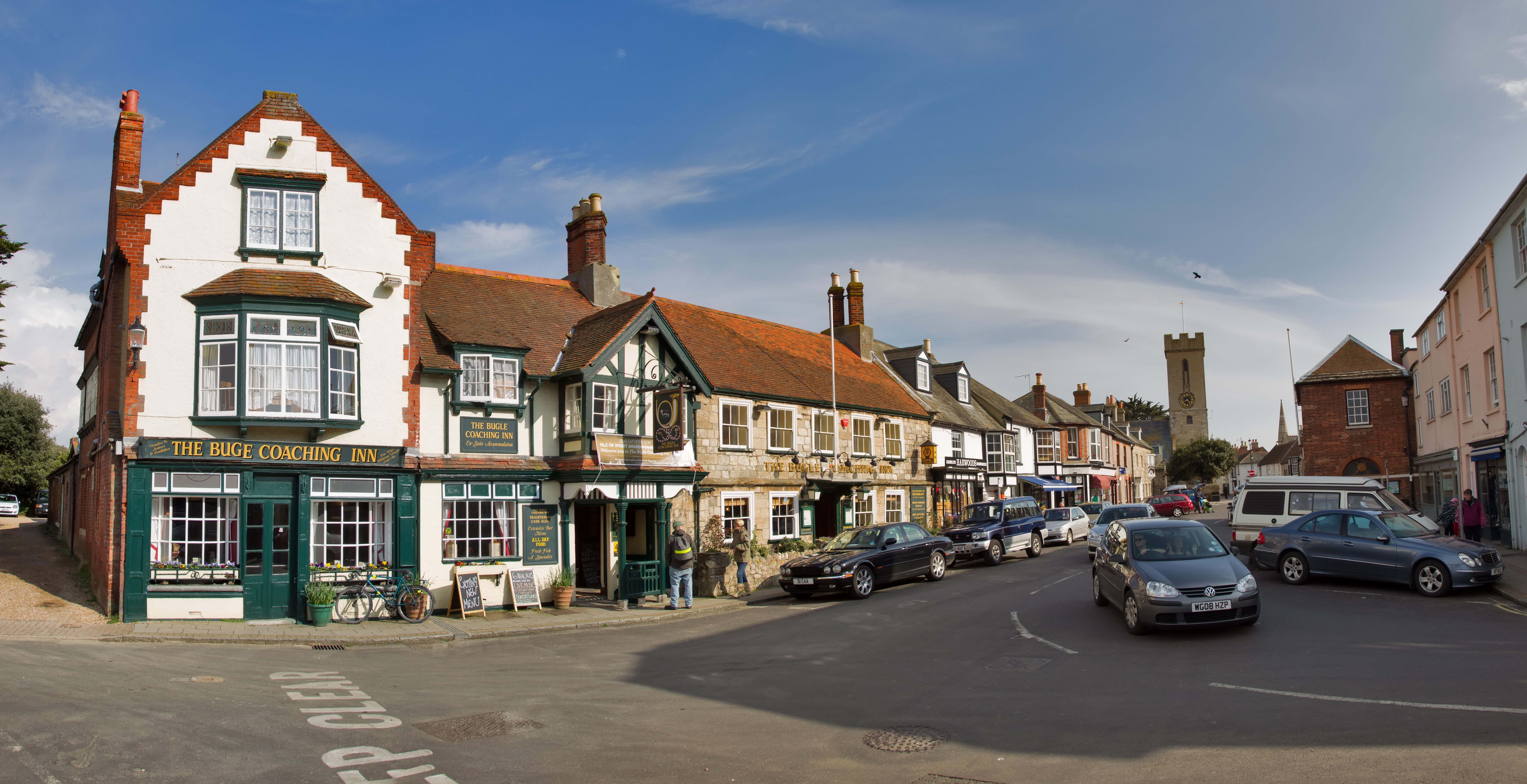 Yarmouth